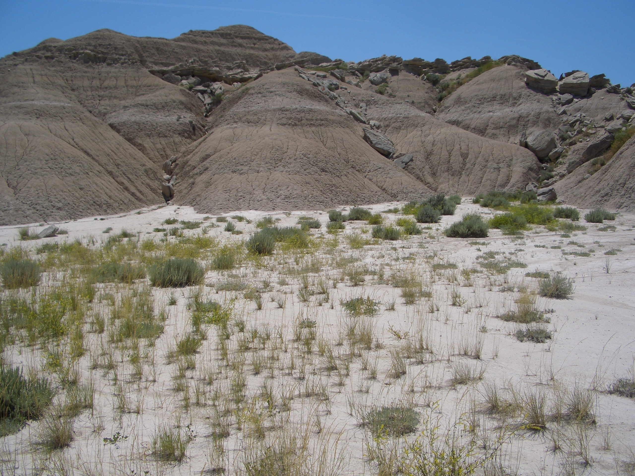 Toadstool Geologic Park, Nebraska, USA